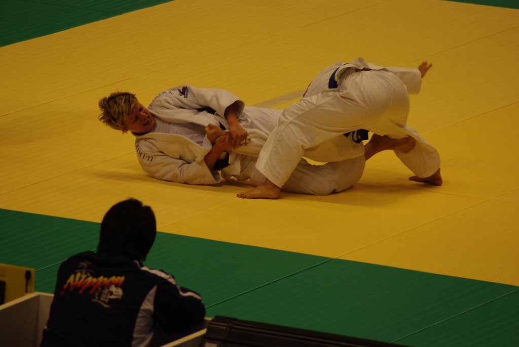 Ueno (JPN) vs Žolnir (SLO), 2008 Kano Cup Day 2